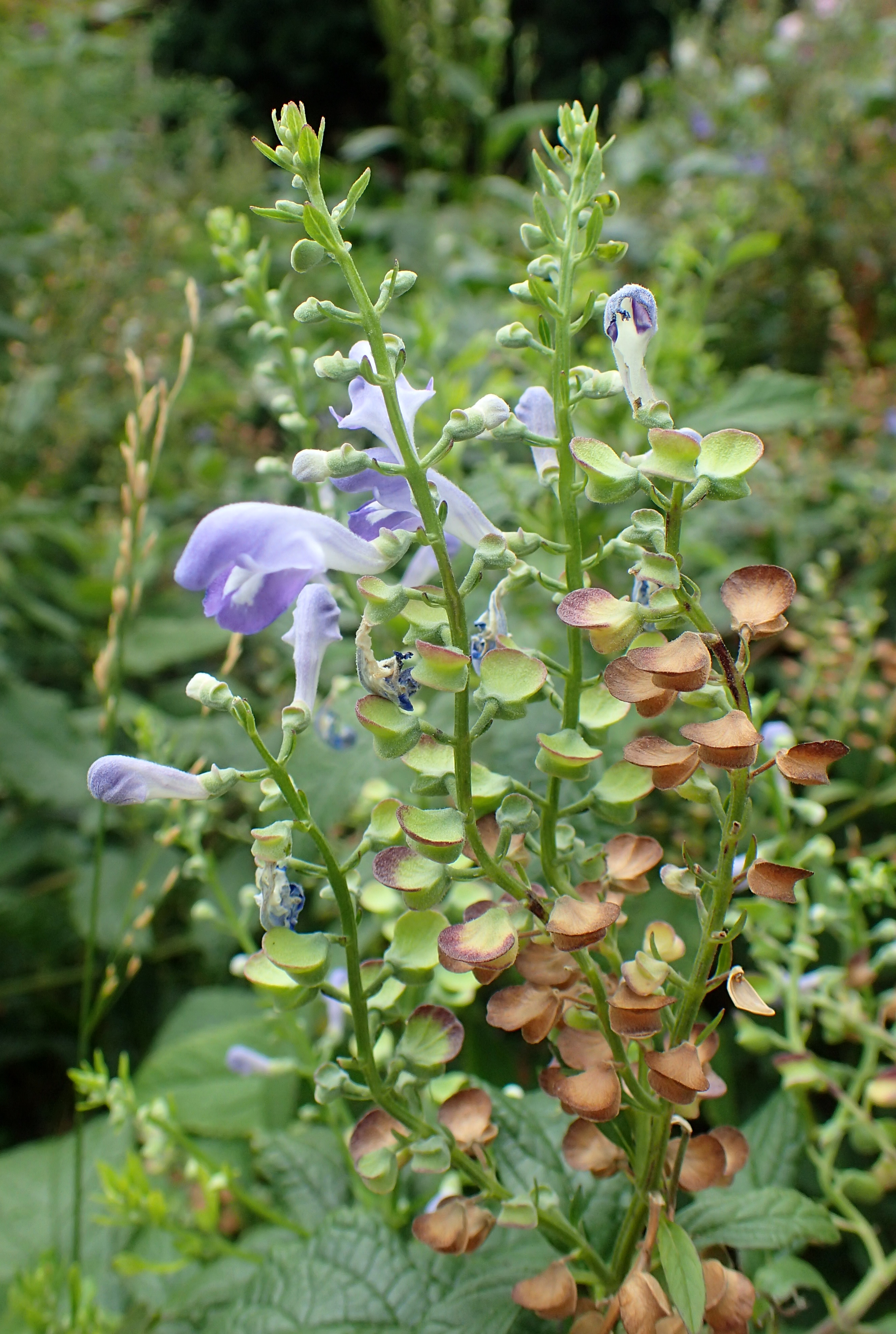 Scutellaria incana at the New York Botanical Garden